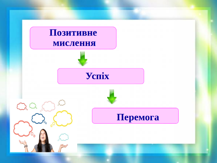 Scheme which explains the way to victory